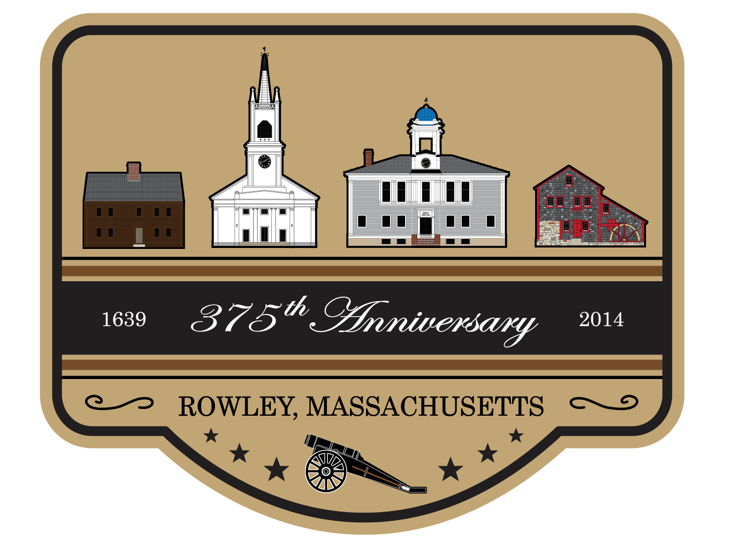 An alternate version on the official logo for Rowley375